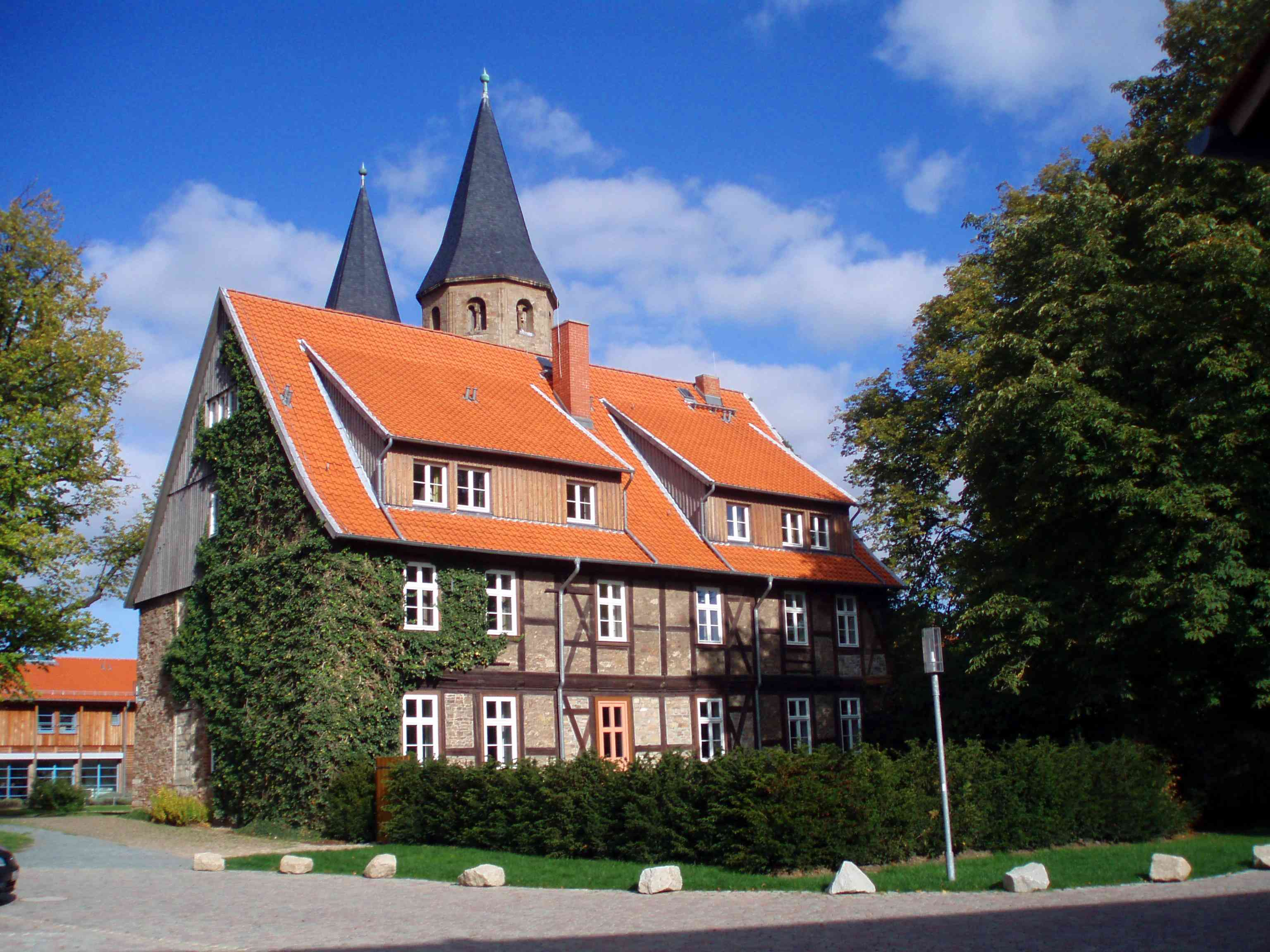 House of Reflection at Drübeck Abbey, Saxony-Anhalt, Germany